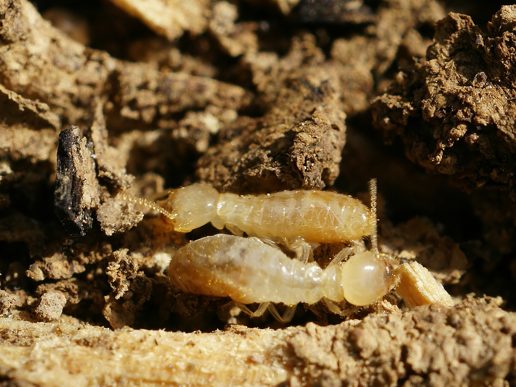 Near el Perelló, Catalonia, Spain